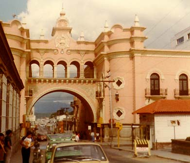 Guatemala City, National Post Office Building. I took this photograph in 1979, and hereby release it to Wikipedia and the public domain. -- Infrogmation 00:20 Dec 5, 2002 (UTC)